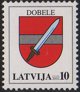 Latvian postage stamp definitive depicting the Dobele town coat of arms.